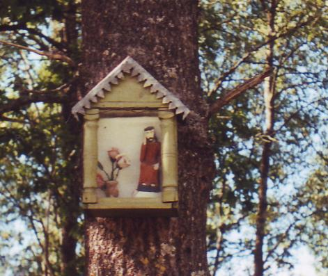 Sauseriai cemetery, Kretinga district, Lithuania